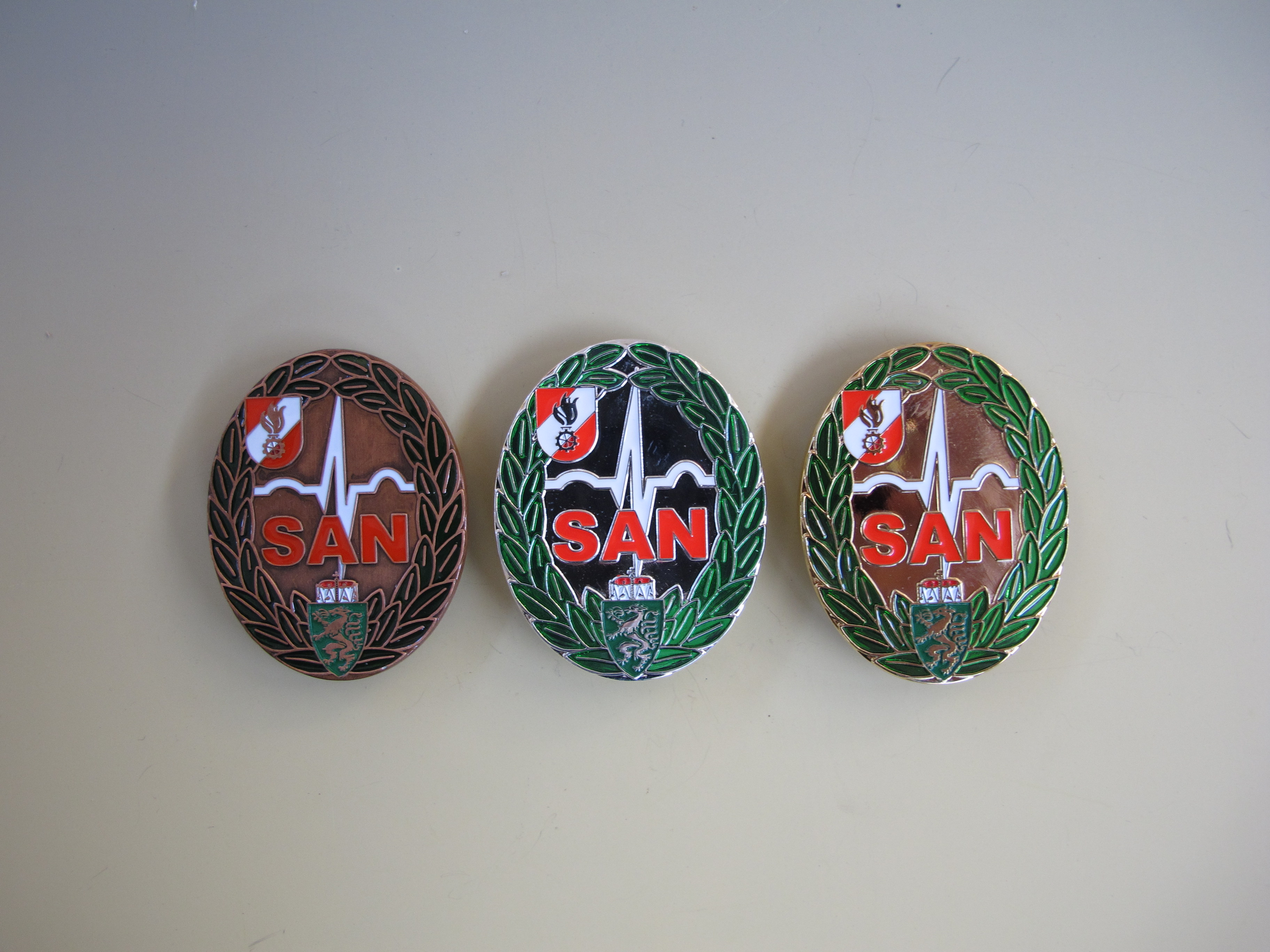 Firefighters insignia of Styria